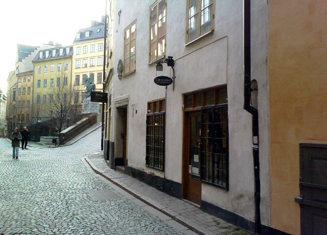 Picture of a house in Stockholm (Sweden) at Österlånggatan 10 Picture with my own camera